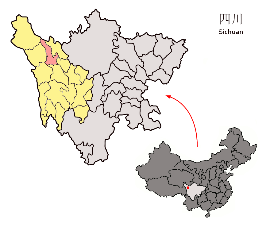 Location of Garzê County (pink) and Garzê Prefecture (yellow) within Sichuan province of China Map drawn in september 2007 using various sources, mainly : Sichuan province administrative regions GIS data: 1:1M, County level, 1990 Sichuan Counties map from